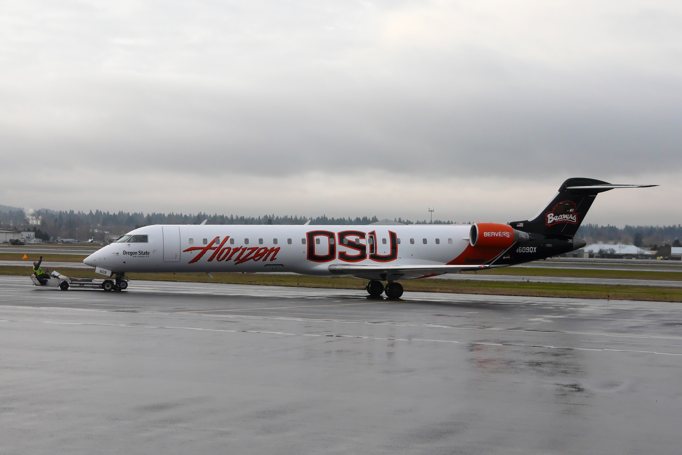 Horizon OSU CRJ-700 Oregon State University (OSU) livery.